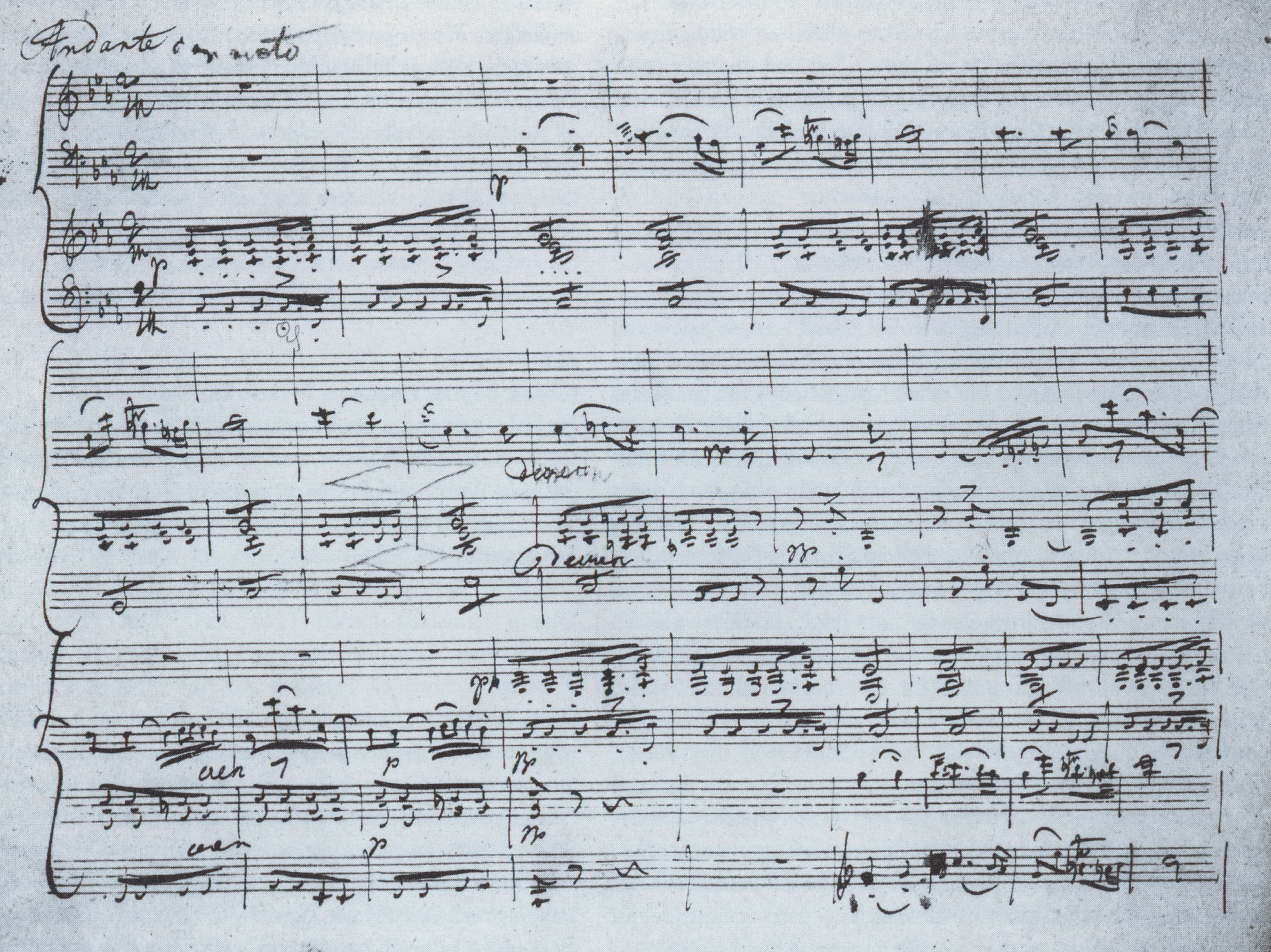 Schubert's op. 100